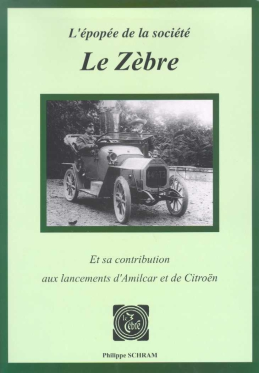 This is the book cover for Philip Schram's book about the vintage car make, Le Zebre.